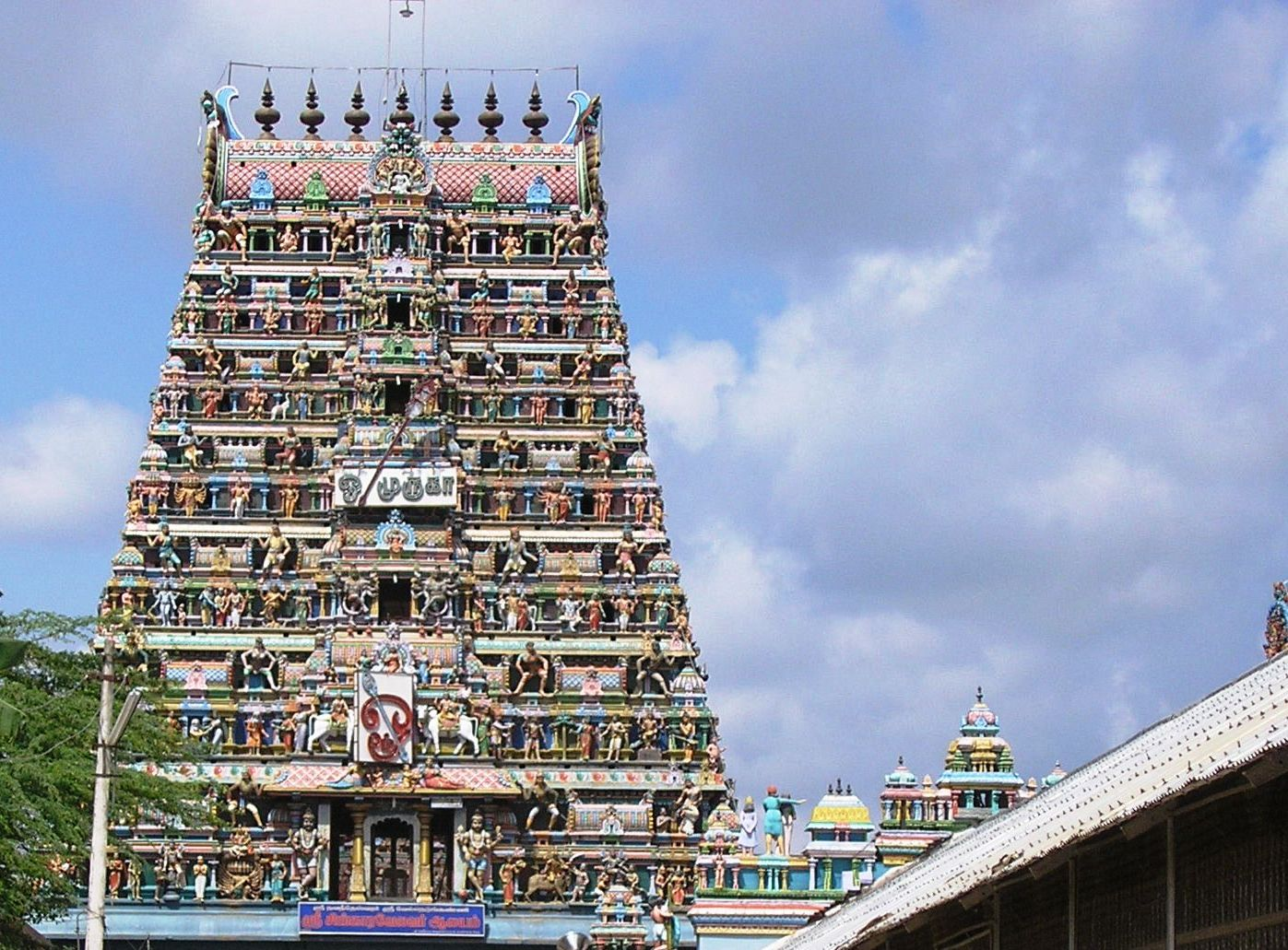 sikkal temple from main entrance.